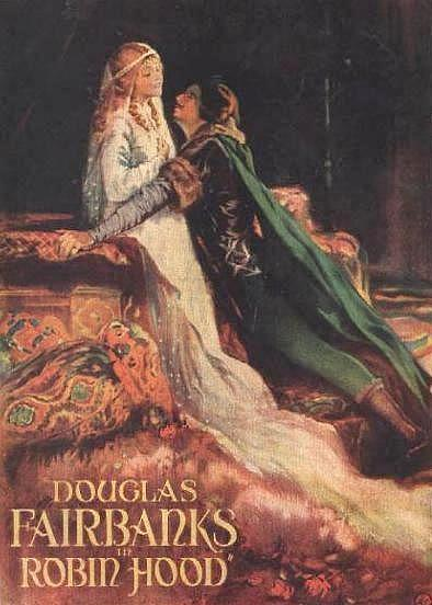 Movie poster for the 1922 United Artists Robin Hood film, starring Douglas Fairbanks. Also depicted is Enid Bennett as Maid Marian (sic).